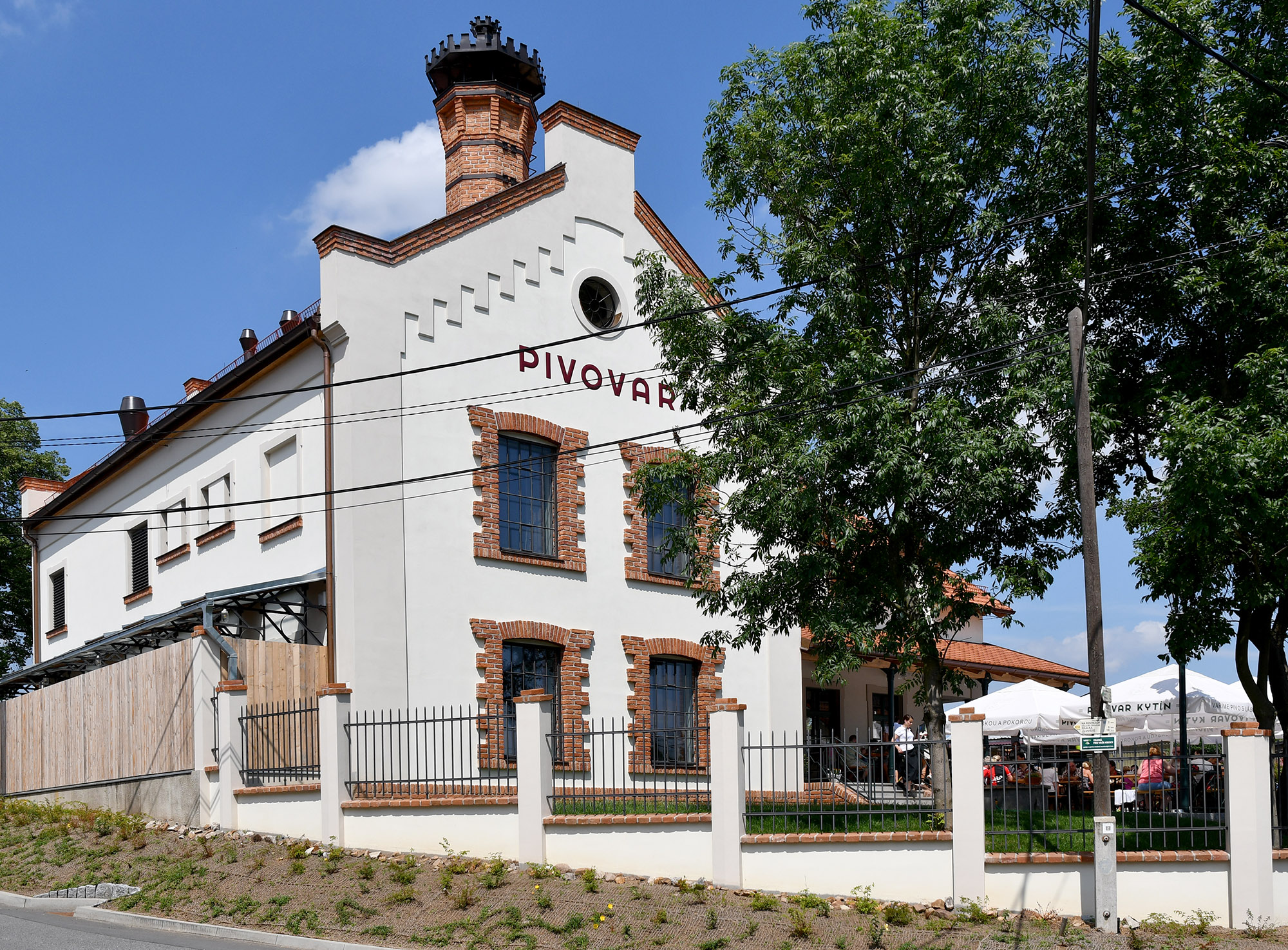 Photo of a small private brewery in village Kytín (Central Bohemia region, Czechia)